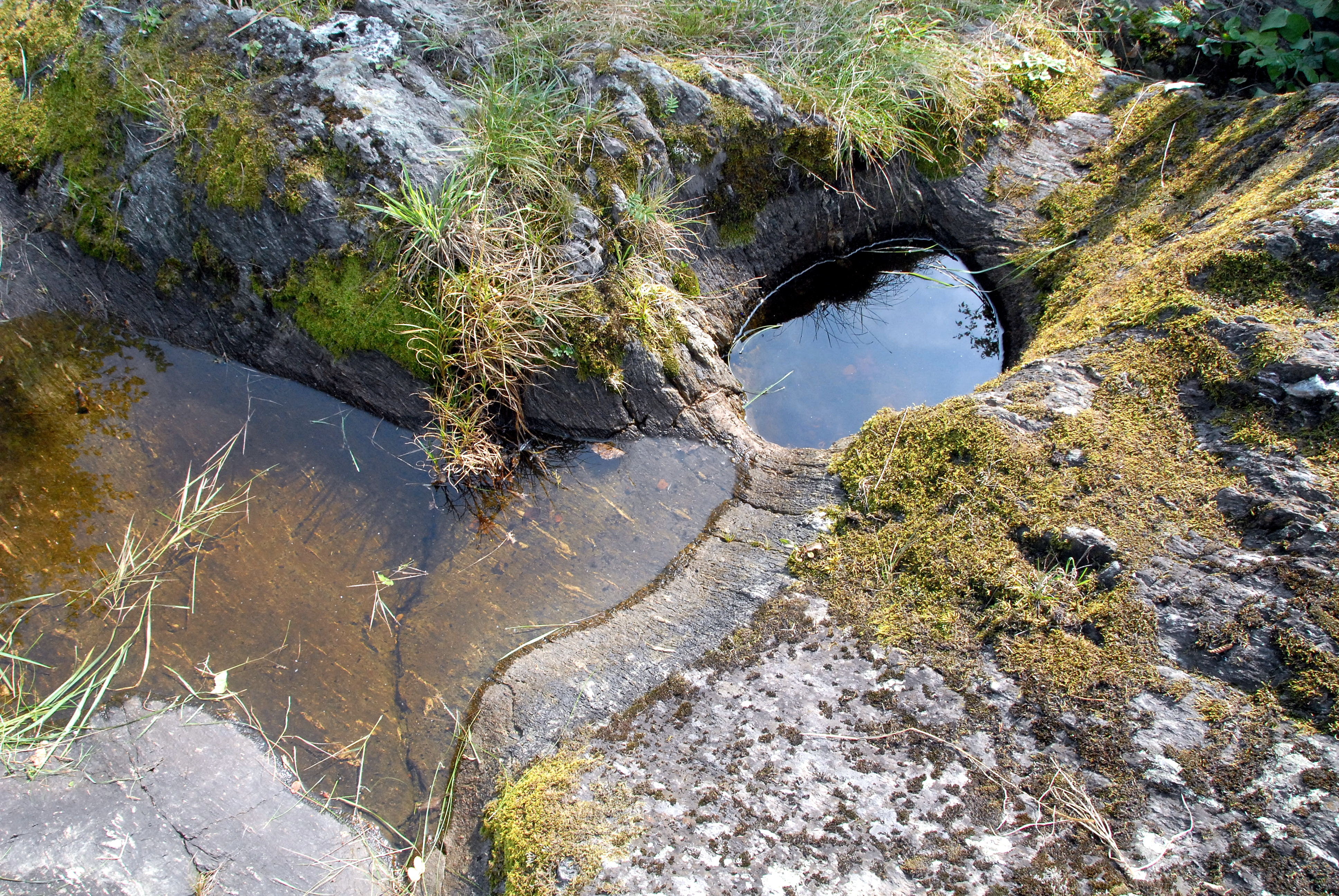 Giant's kettle in Pritschitz, municipality Pörtschach am Wörther See, district Klagenfurt Land, Carinthia, Austria, EU